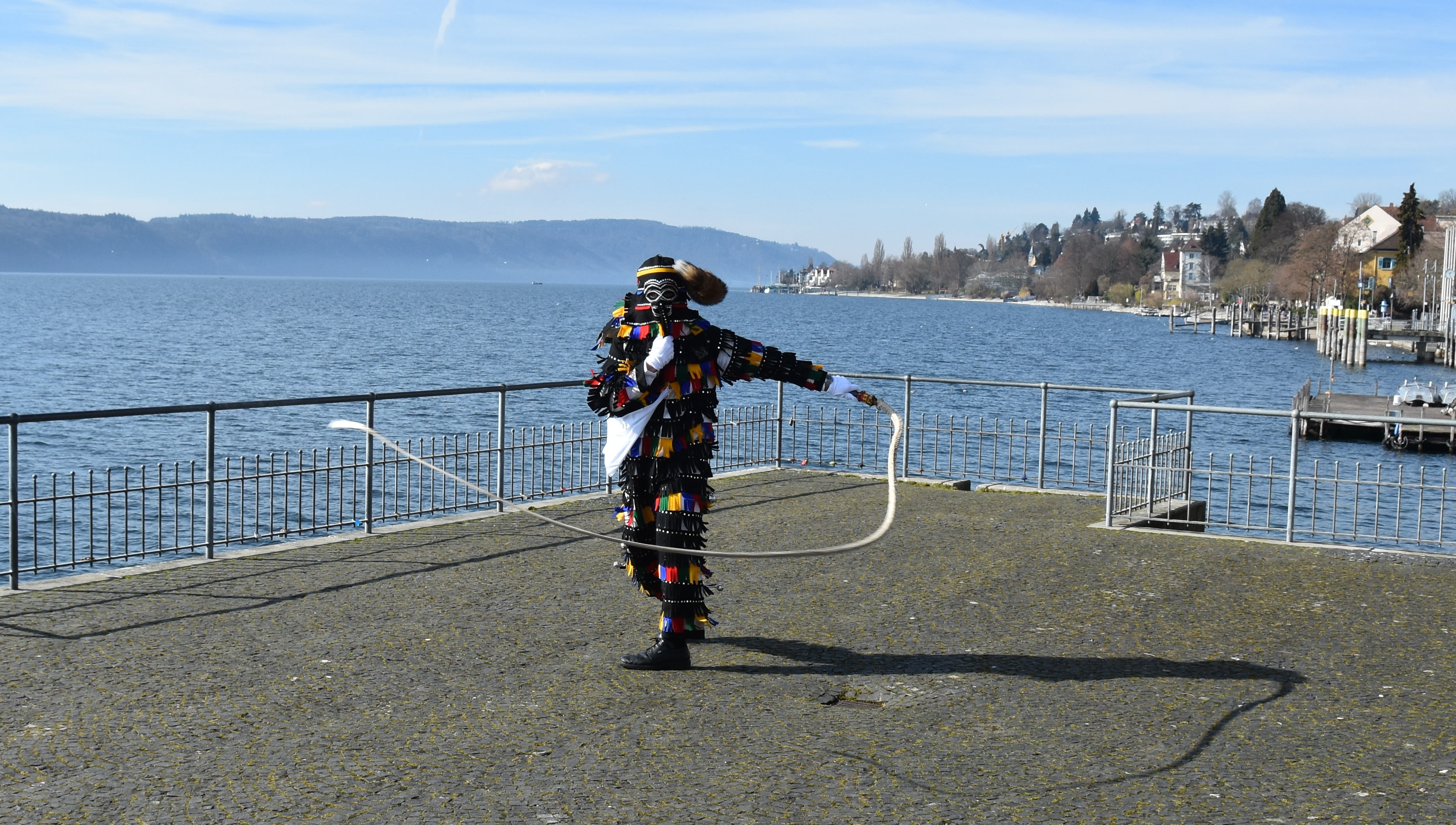 Der Ueberlinger Haensele is snapping his Karbatsche (whip) on the shore of Lake Constance